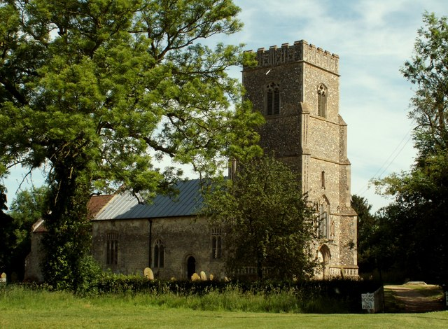 Parish church of St Nicholas, Bedfield, Suffolk, seen from the northwest